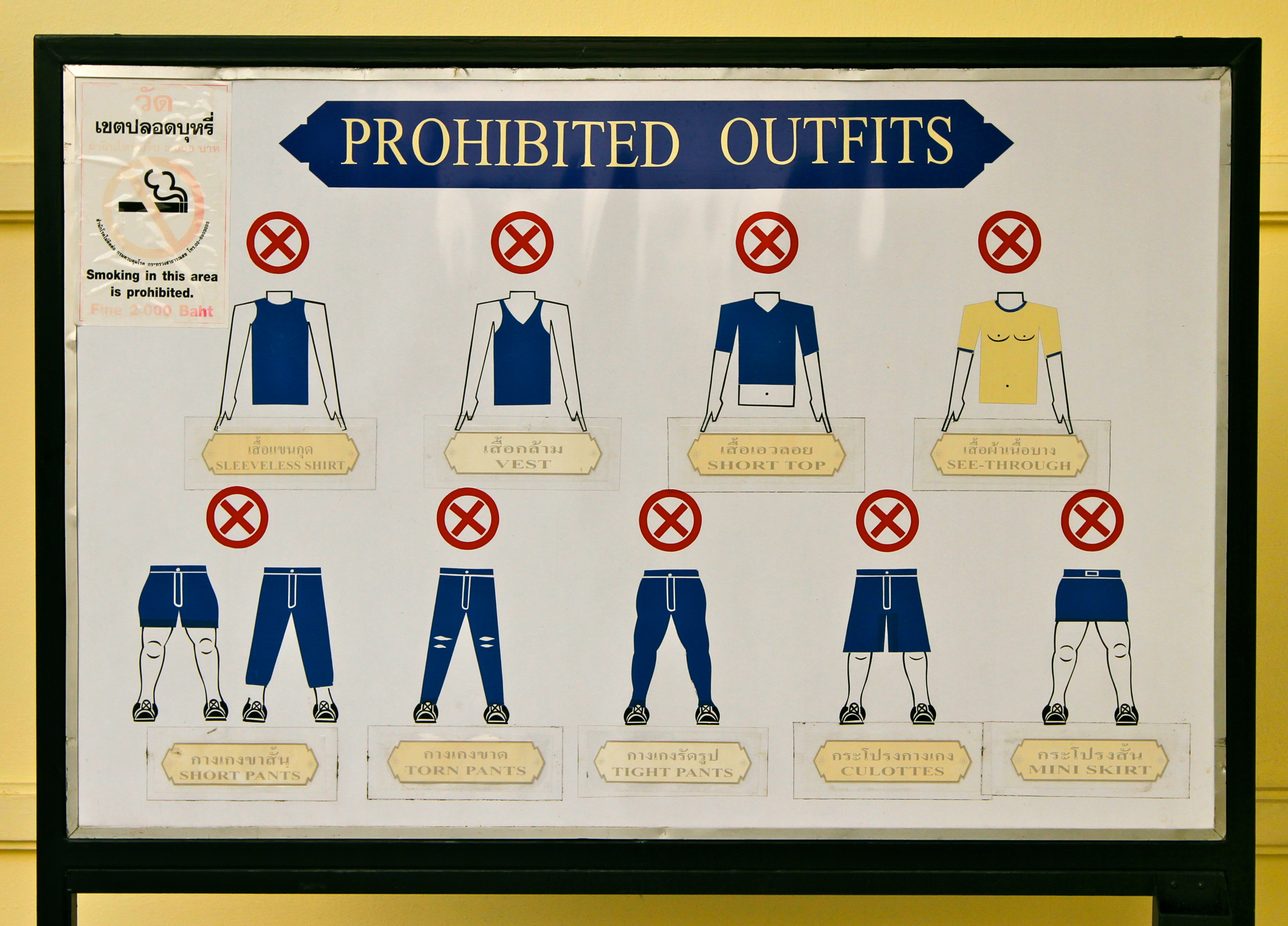 Information sign regarding dress code for entry to the Grand Palace and the Temple of the Emerald Buddha in Bangkok, Thailand.